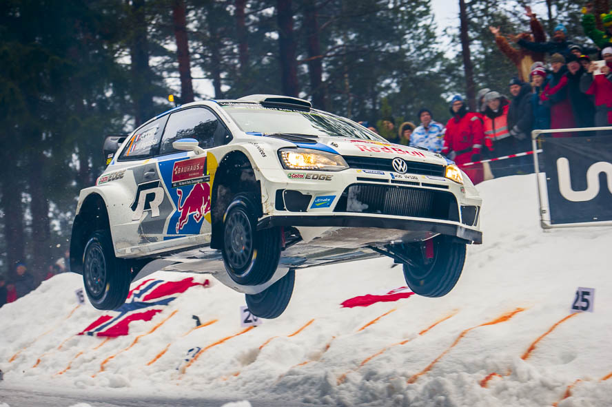 Rally Sweden 2014 Colin's Crest Arena,Julien Ingrassia,Motorsport,Rally,Rally Sweden,Rallye,Rallye Schweden,SS19,Sebastien Ogier,VW Polo R WRC,Vargäsen 1,Volkswagen Motorsport,Volkswagen Polo R WRC,WP19